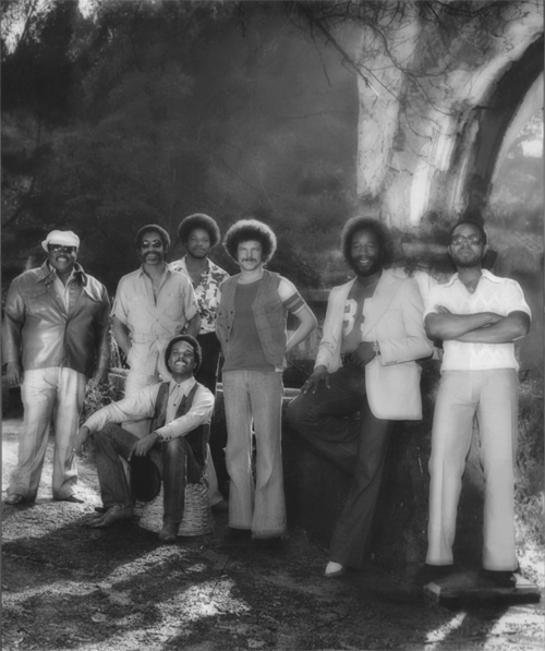 War Original Lineup, 1976, Source: Lee Oskar and Harold Brown